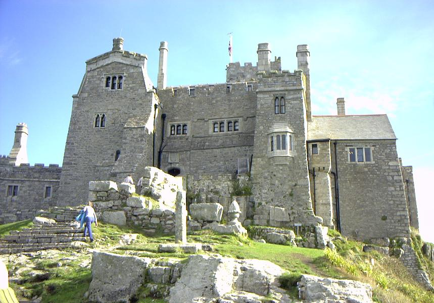 View towards St. Michael's Mount